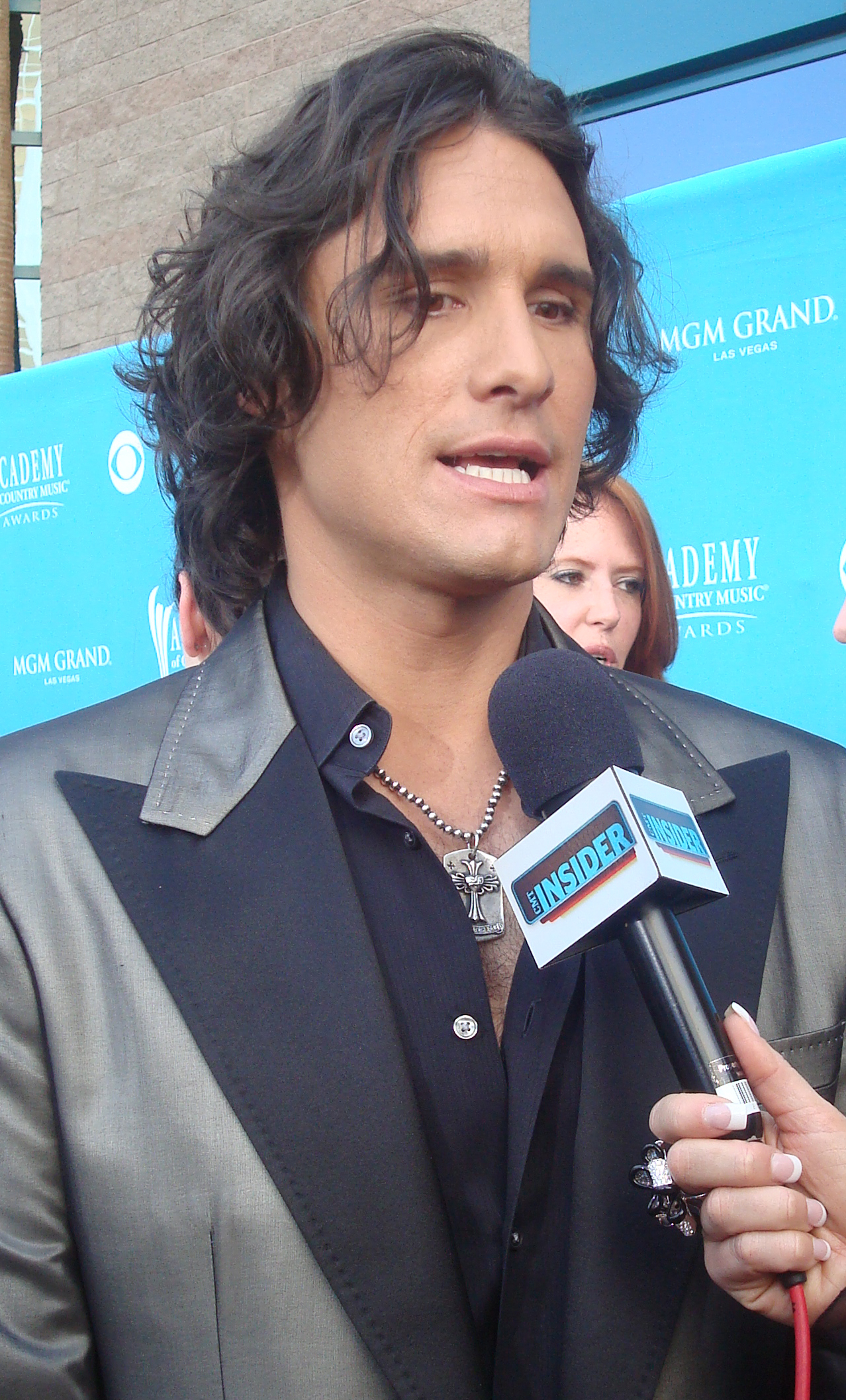 Joe Nichols at the 45th Annual Academy of Country Music Awards.